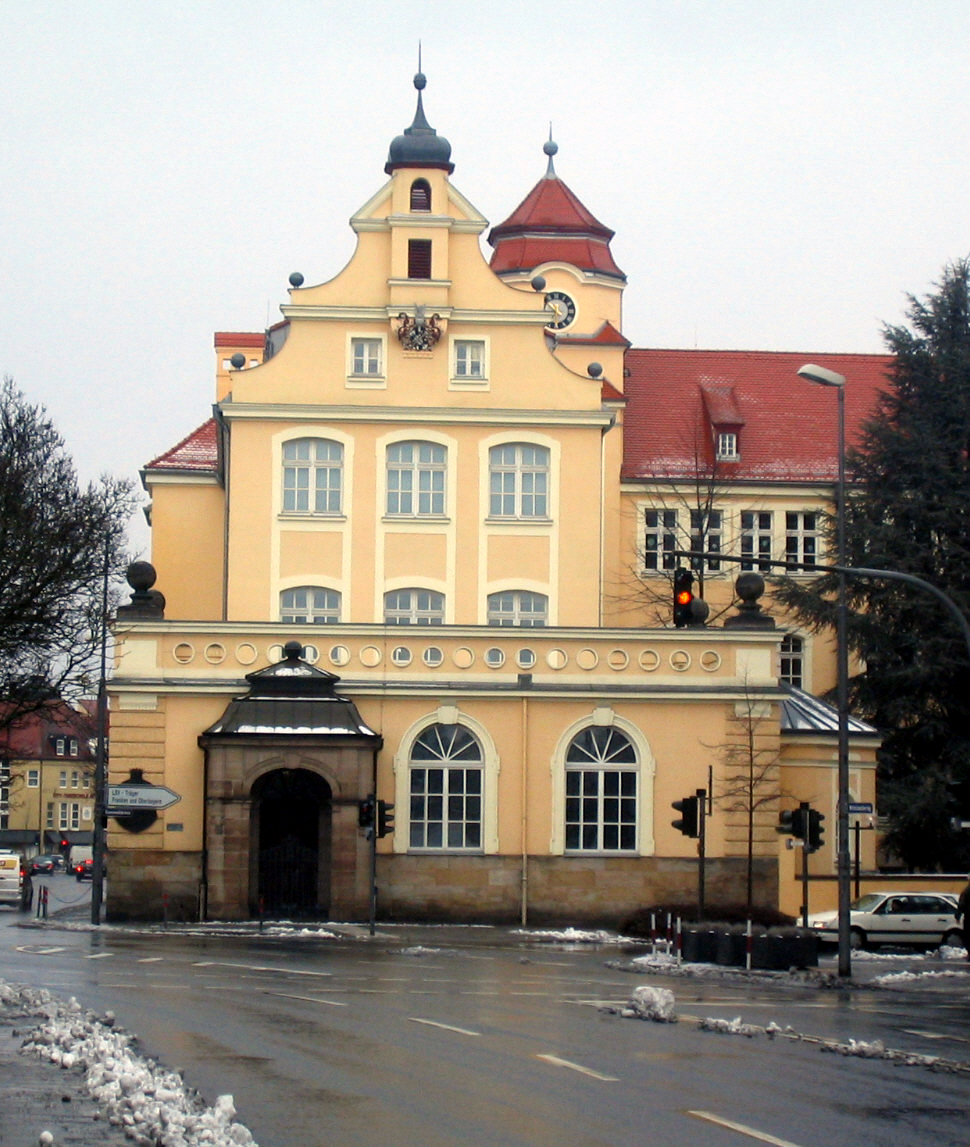 Southern front of the Richard-Wagner-Gymnasium in Bayreuth